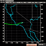 Mid range tracking of STS-125 at Edwards AFB on orb 197